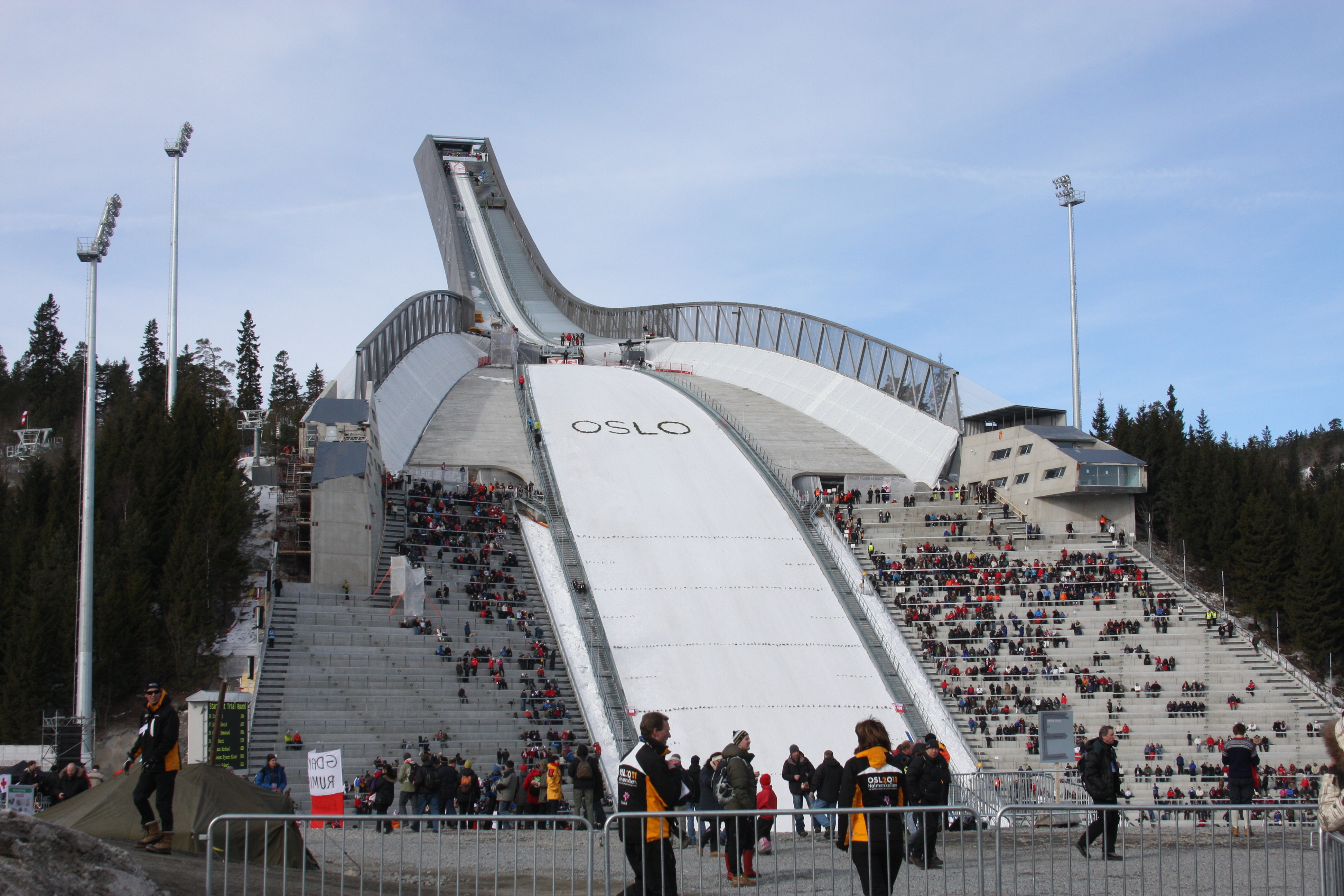 Holmenkollbakken, Oslo, at World Cup and test championship, 14 march 2010